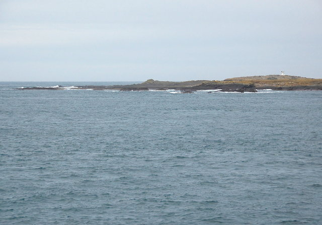 Beacon on The Tarf, Swona The Pentland Firth has a justifiable reputation for having among the strongest currents anywhere. Here, at the southern end of Swona, they are even more notorious. Today a small local boat was out here putting down creels.